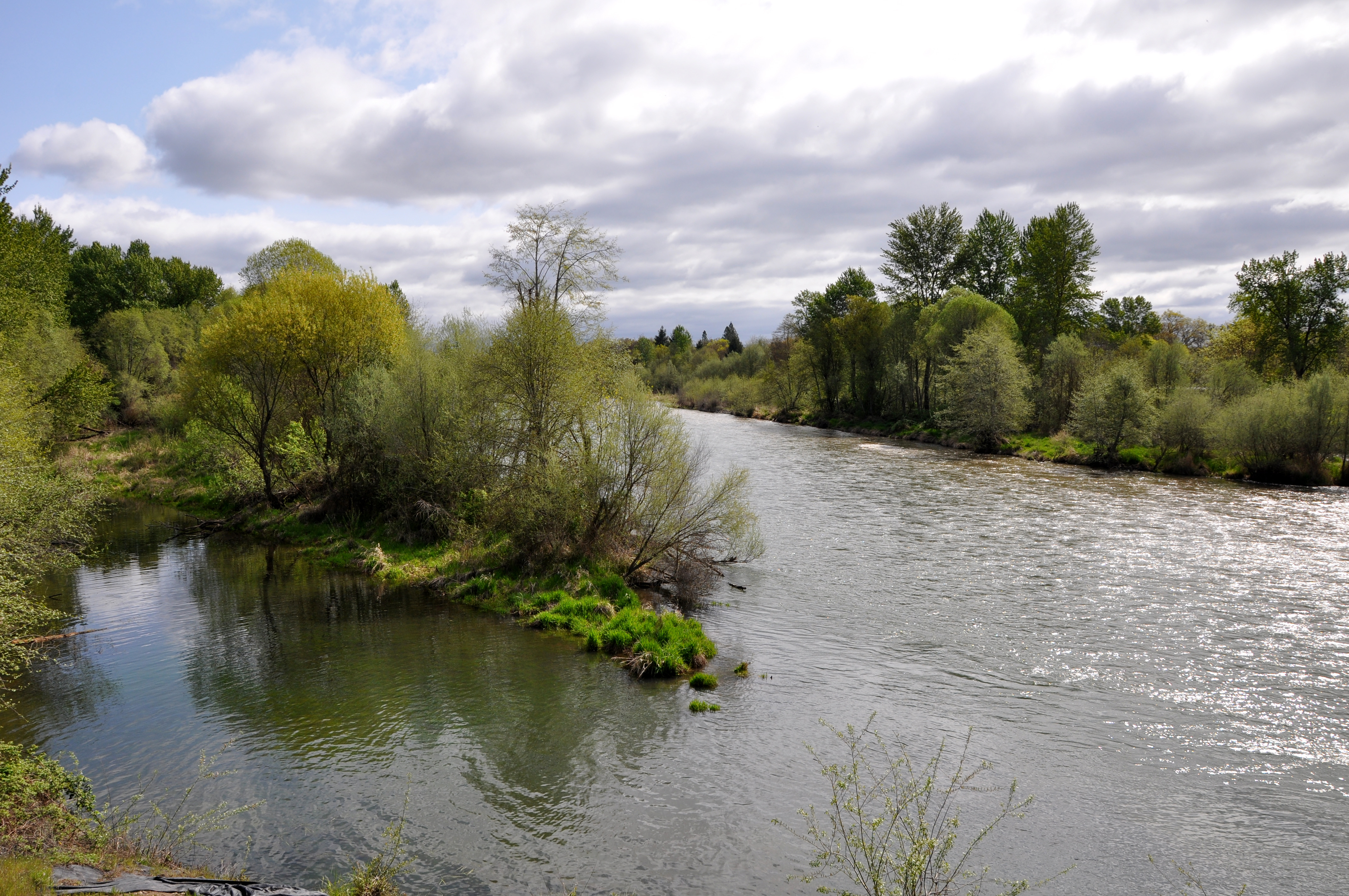 The Rogue River flows through TouVelle State Recreation Site, north of Medford in the U.S. state of Oregon. View is upstream (east) from the bridge carrying Table Rock Road.